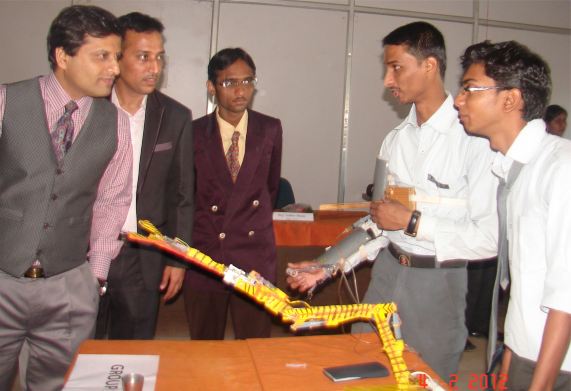 Robo Arm Demo - SHIKHAR-2012. [In photo (from left)Dr. Harold D’Costa, Cyber Crime, Prof. R.M.Ingle (JIT)]